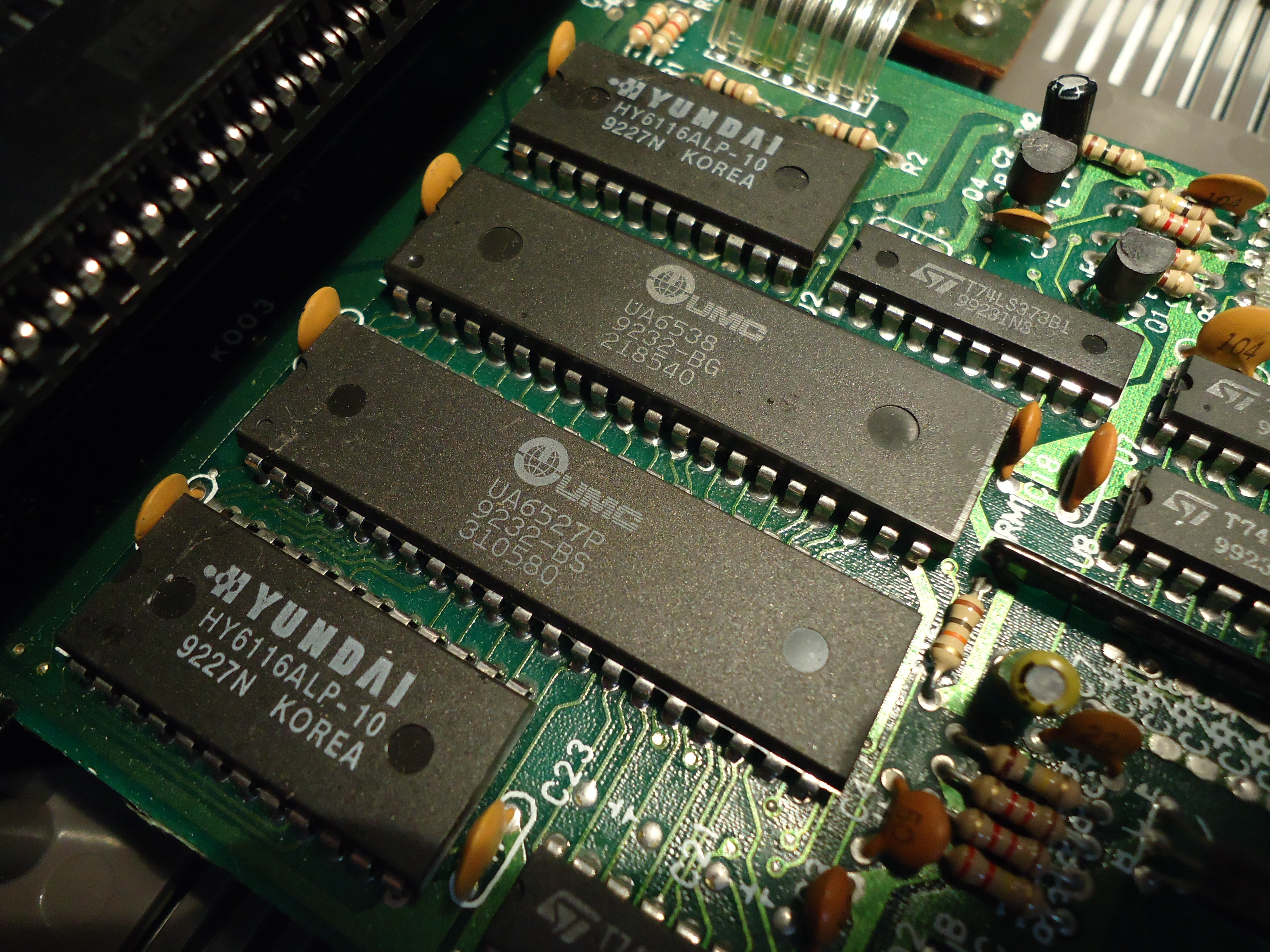 Motherboard from a NS-90AP Famiclone. You can see the CPU (center-left, bearing code UA6527P) and the PPU (center-right, bearing code UA6538), both manufactured by United Microelectronics Corporation in 1992. Chips made by Hyundai are the RAM memories.